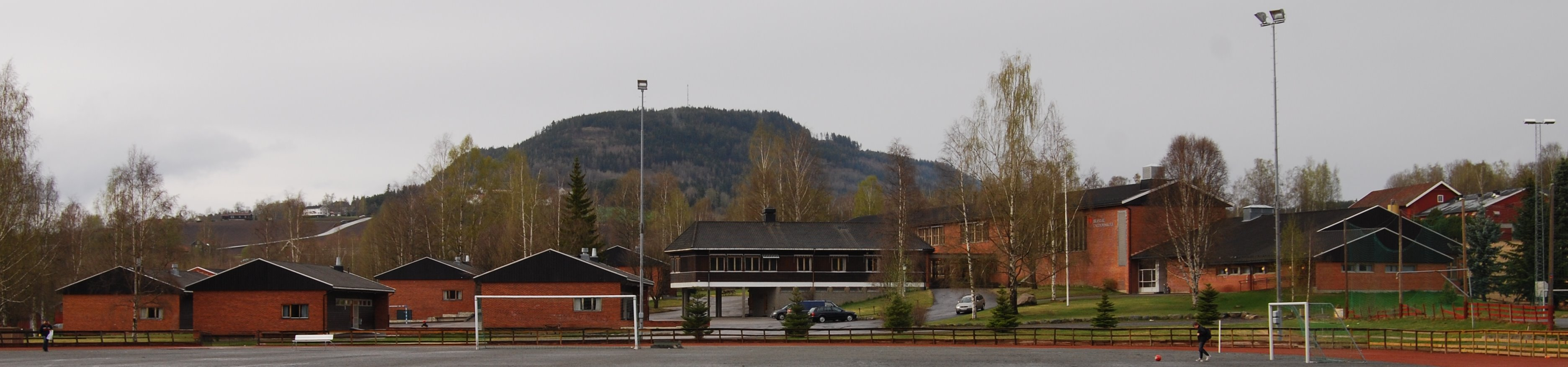 Brandbu lower secondary school, Gran, Oppland, Norway.